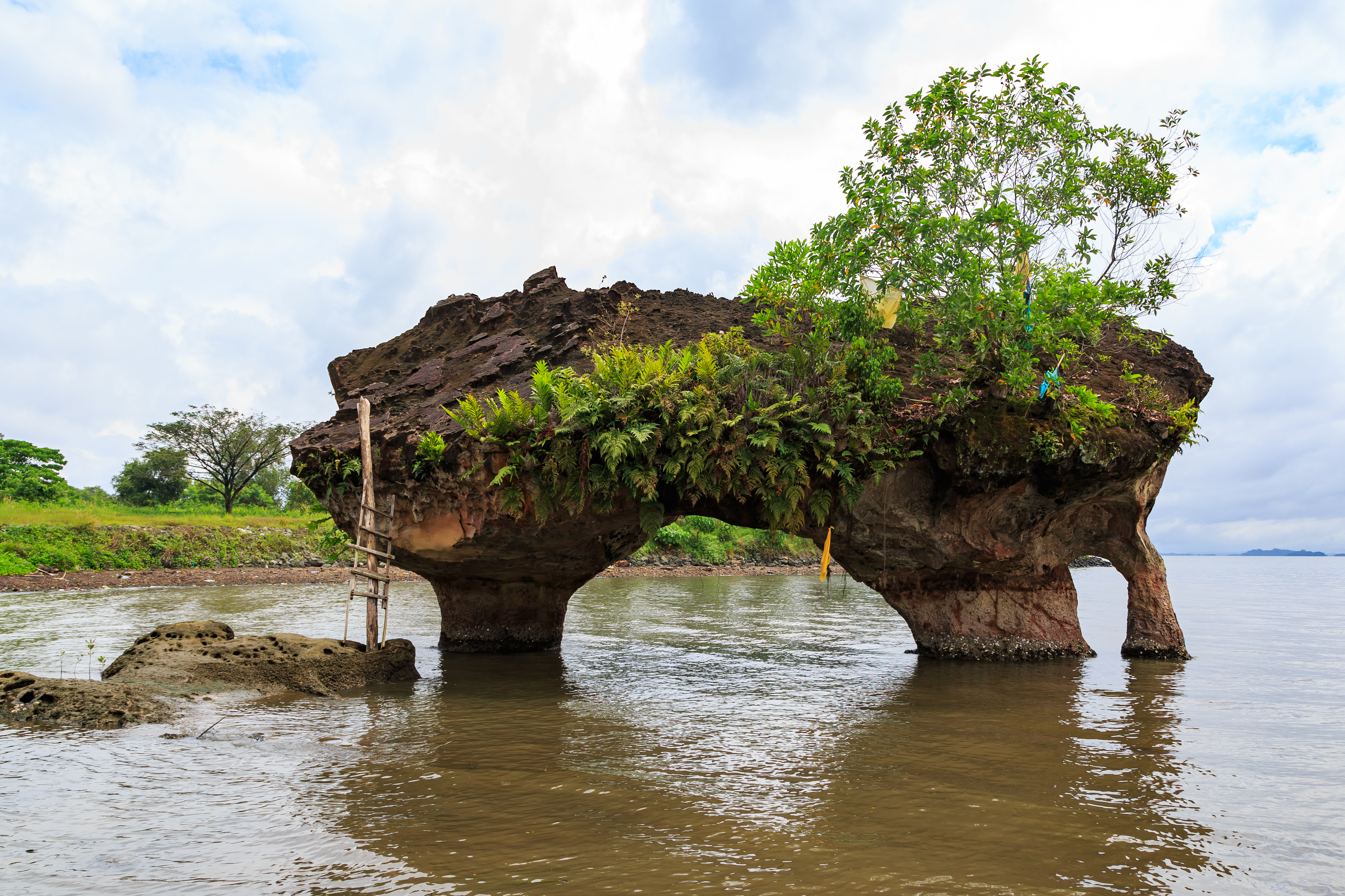 Sandakan, Sabah: Batu Sapi, in chinese "the three legged rock" sometimes also known as "the elephant rock" near Kg. Gas